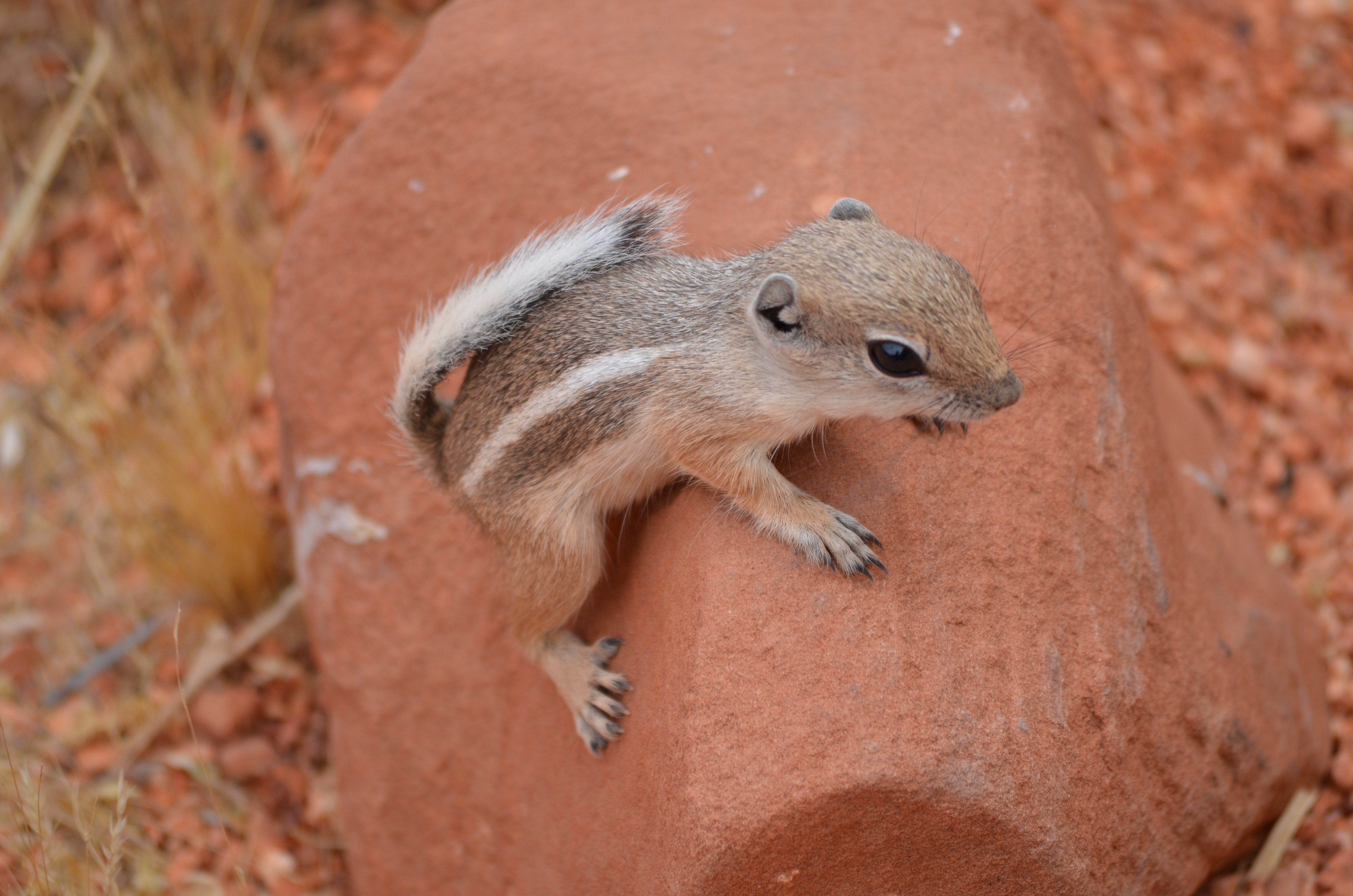 Ammospermophilus Leucurus on red stone